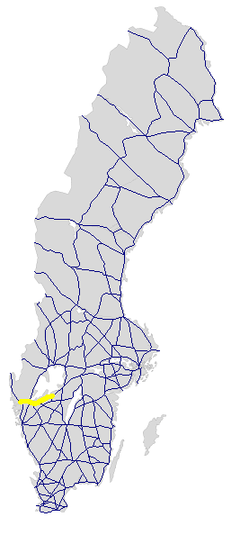 Map of Swedish riksväg (road) 44